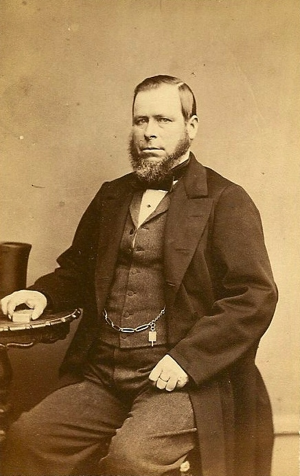 Swedish politician from late nineteenth century